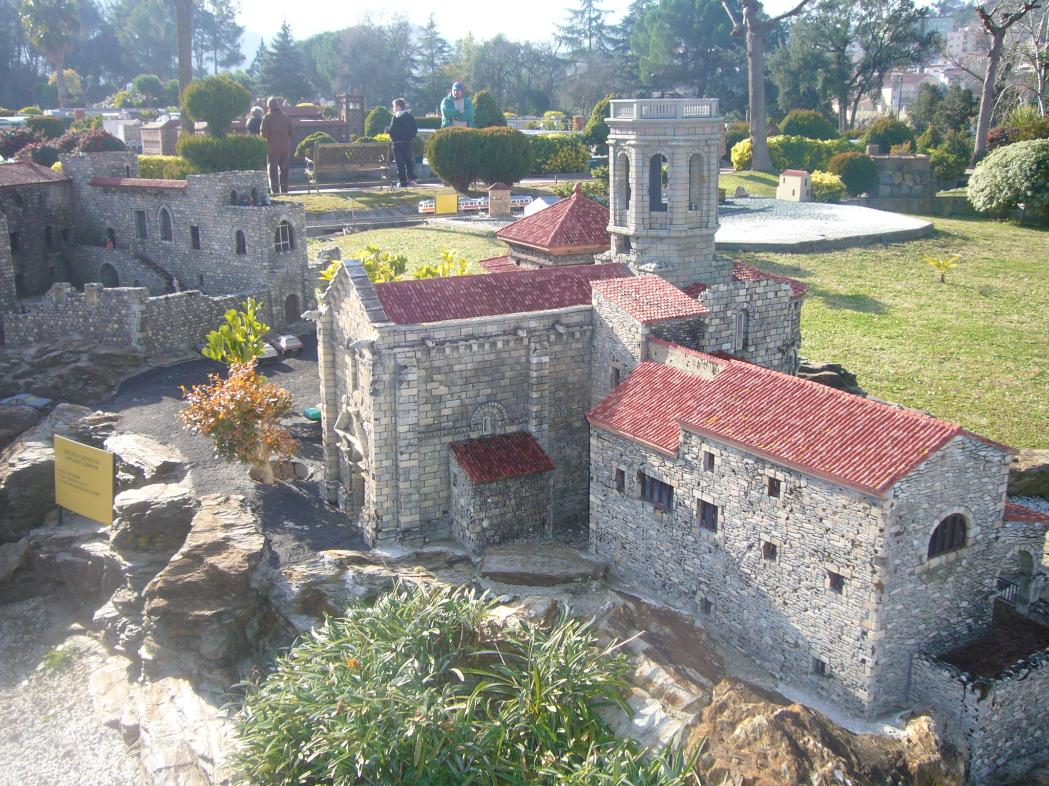 Scale model at the "Catalunya en Miniatura" miniature park : Sant Martí Sarroca castle and church